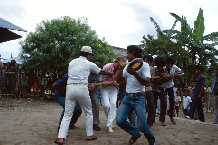 Bambu Gila at Liang